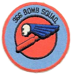 Emblem of the 366th Bombardment Squadron (SAC)